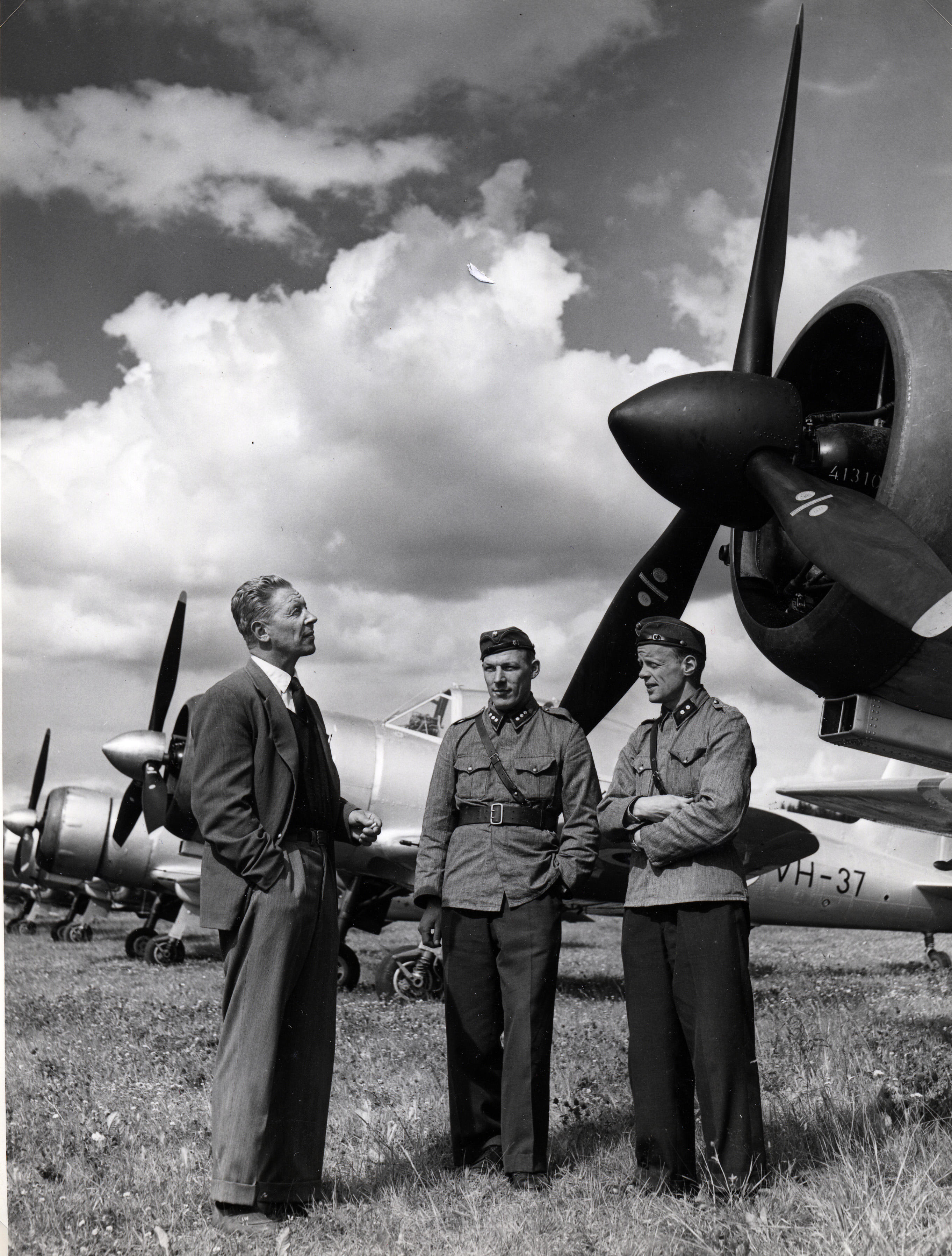 Valmet Vihuri and test pilots in Finland in 1956